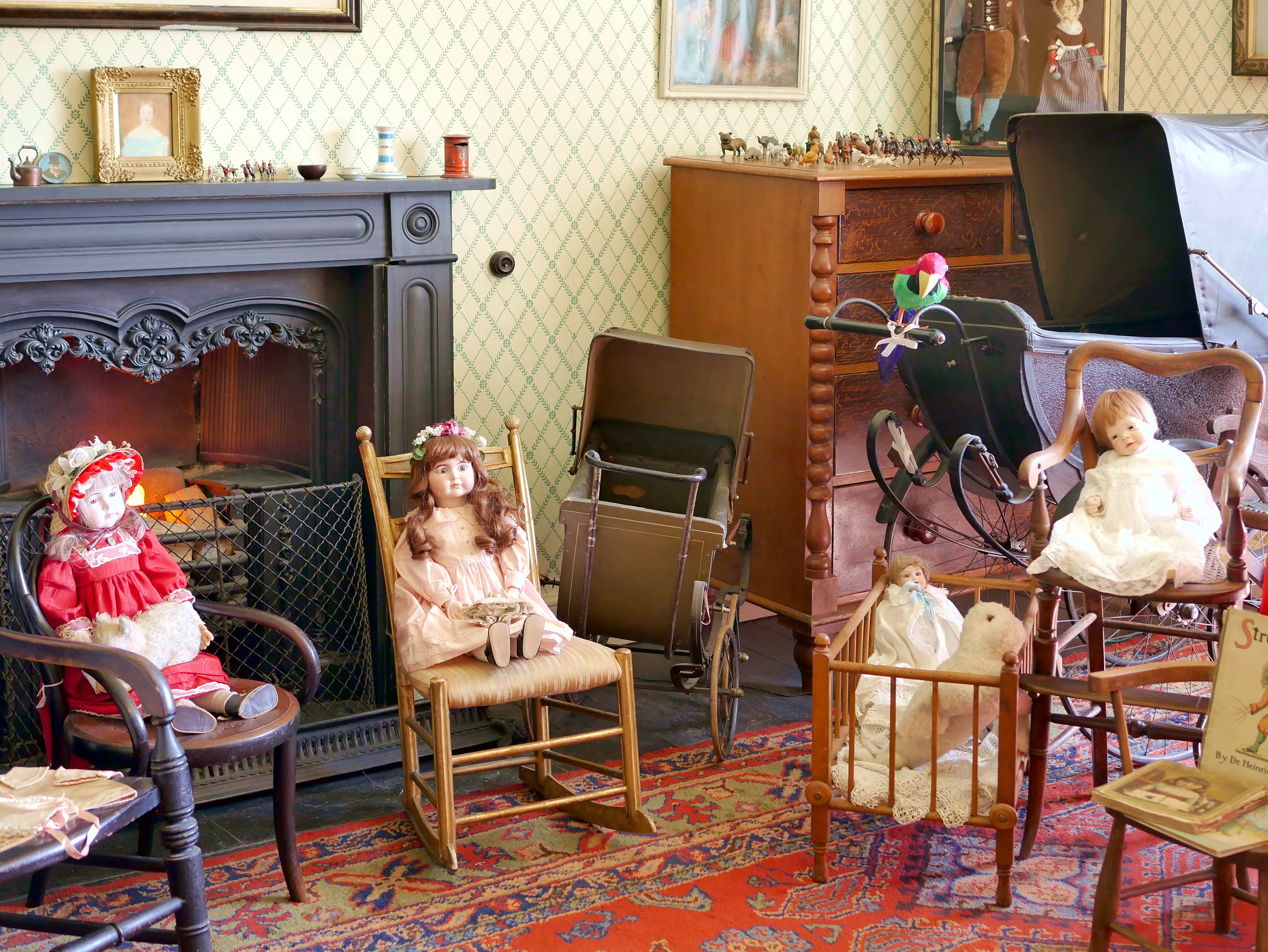 Scolton Manor - toys